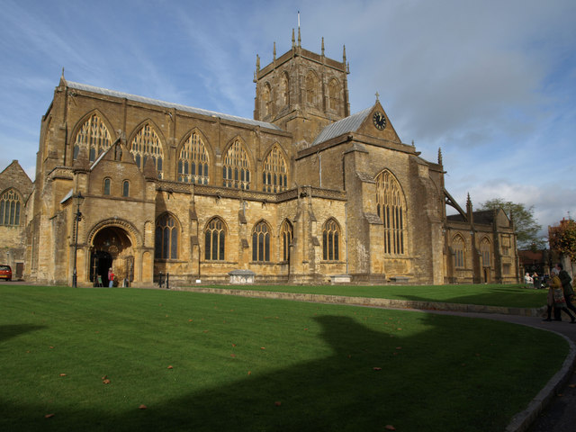 Sherborne Abbey